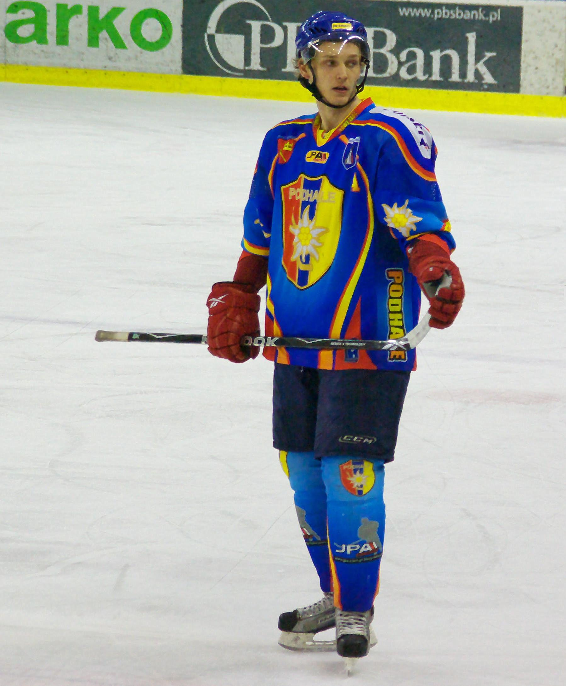 Marcin Kolusz during match KH Sanok - MMKS Podhale Nowy Targ 20.03.2011